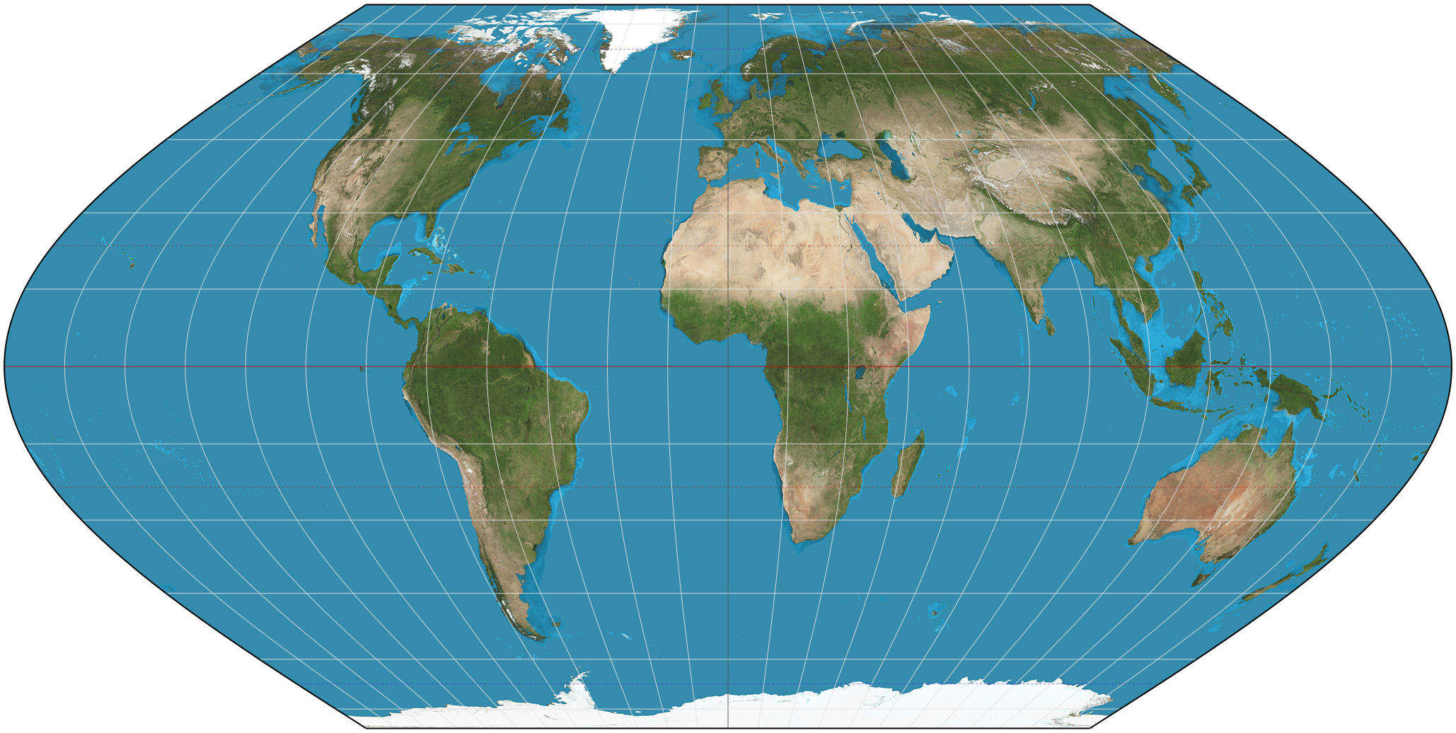 The world on Eckert VI projection. 15° graticule. Imagery is a derivative of NASA’s Blue Marble summer month composite with oceans lightened to enhance legibility and contrast. Image created with the Geocart map projection software.